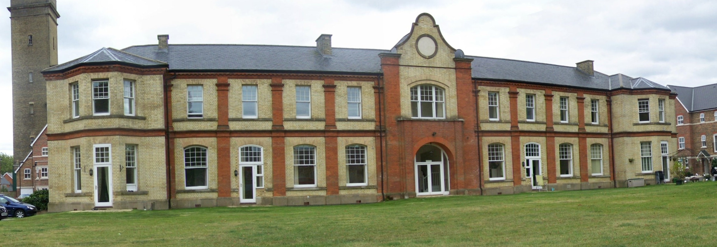 The converted administration block of Horton Hospital, taken in 2009